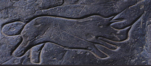 Ifran Tazka